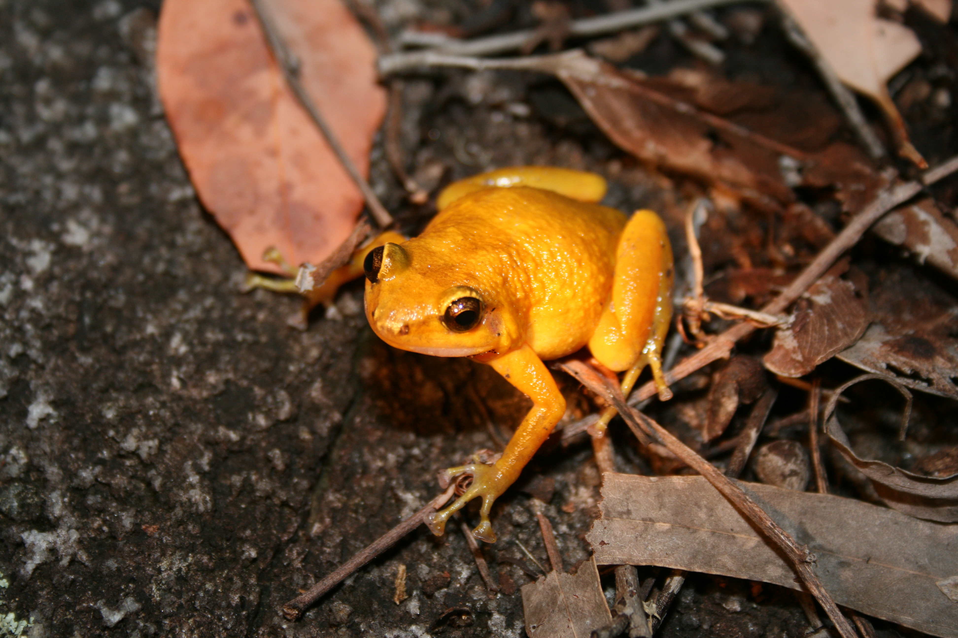 Female of Black Mountain Boulder Frog (Cophixalus saxatilis)